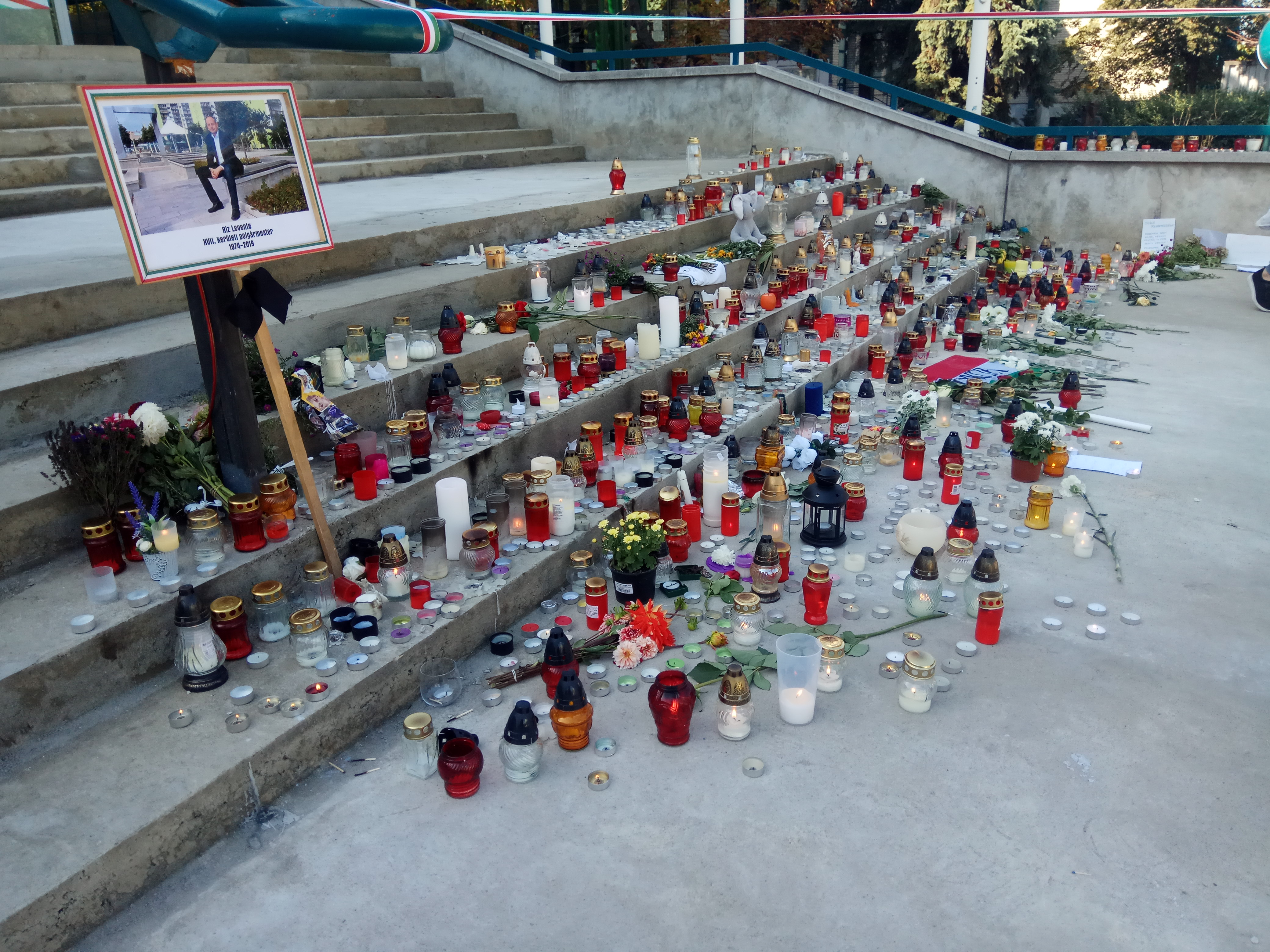 Memorial candles of Levente Riz on the stairs of Rákosmente Town Hall